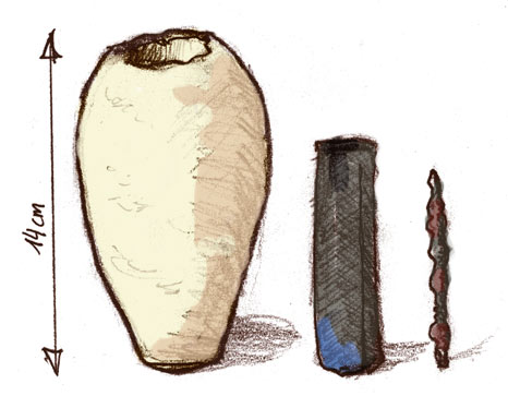 Baghdad Battery Drawing from different pictures of the museum artefact.